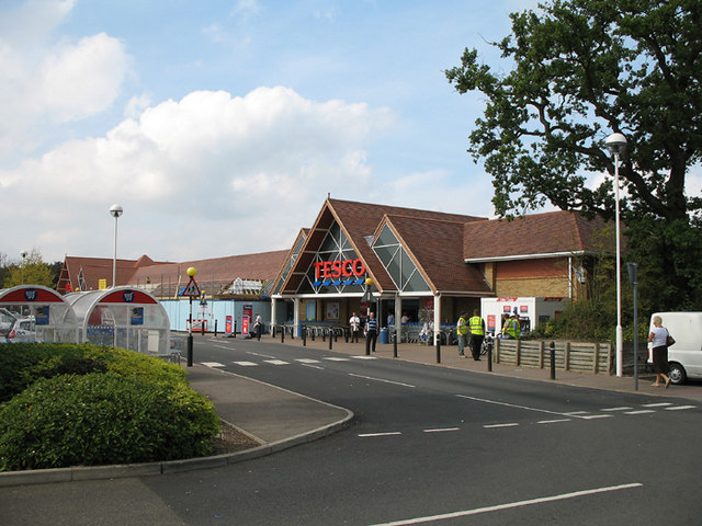 Tesco - Potters Bar. Currently undergoing a rebuild, the Tesco superstore on the B556 at Potters Bar.